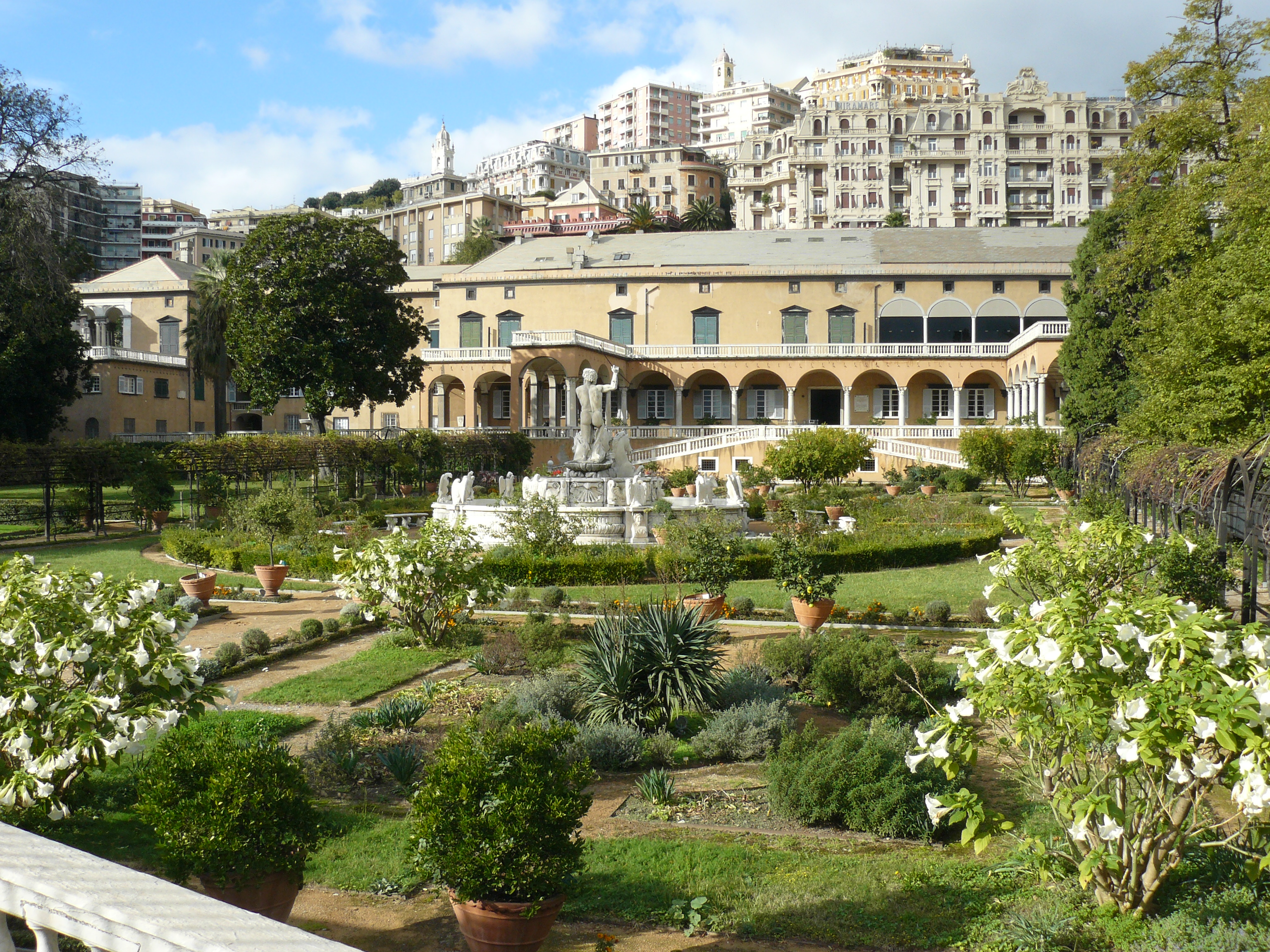 Gardens of the palazzo del Principe in Genoa - Italy